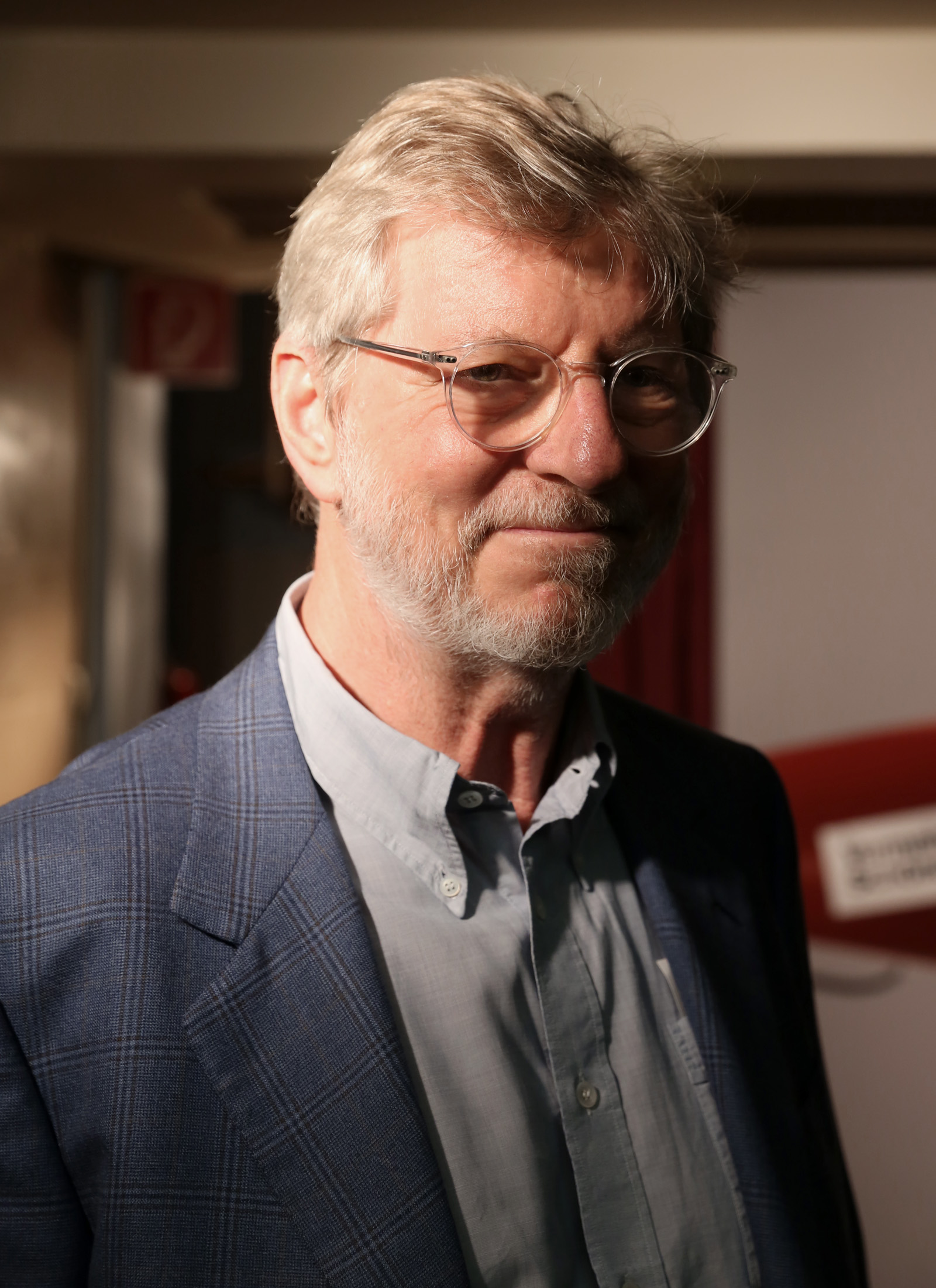 Oscar Bronner, opening night of Vienna International Film Festival 2013 (Gartenbaukino, Vienna, Austria).